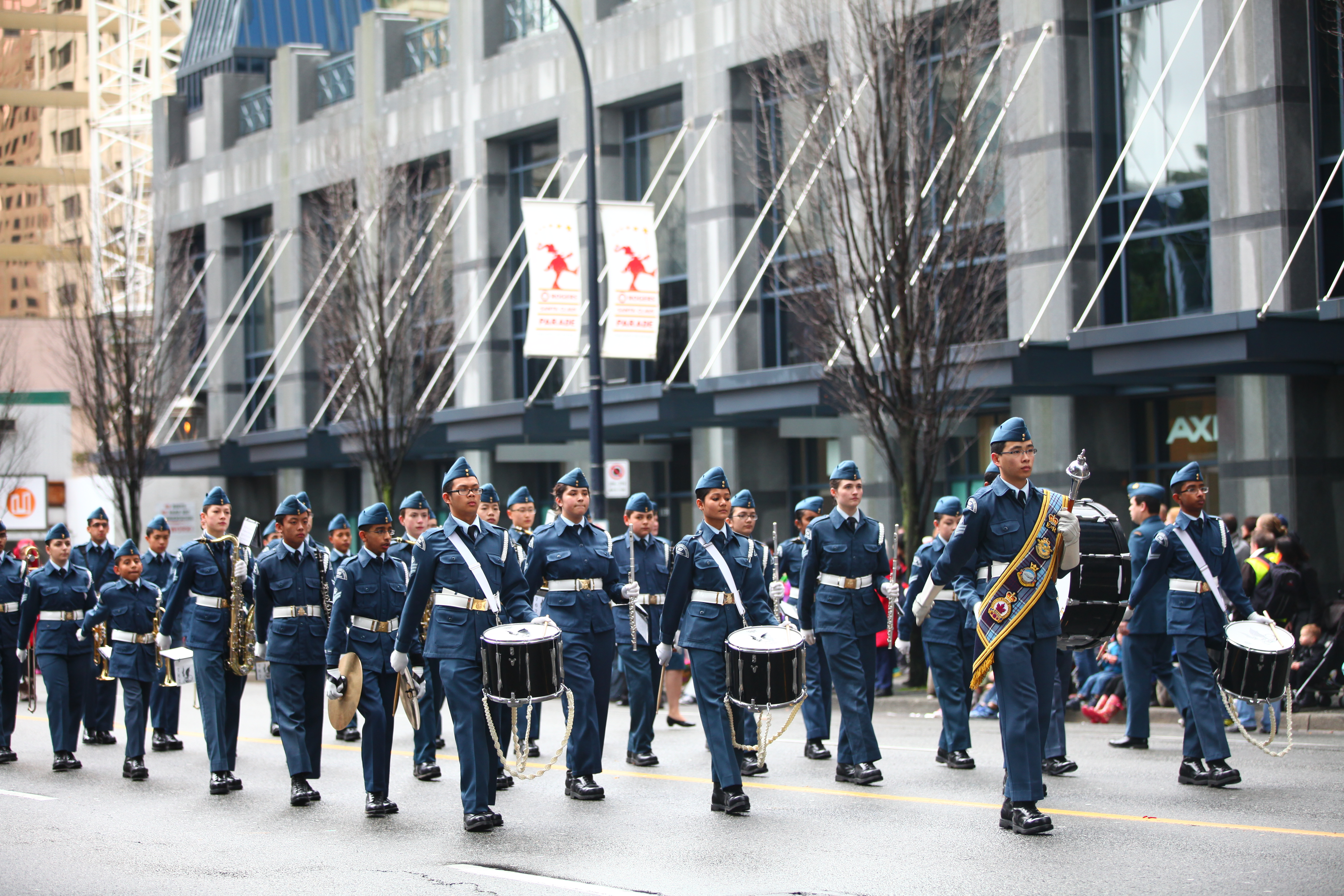 Rogers Santa Claus Parade